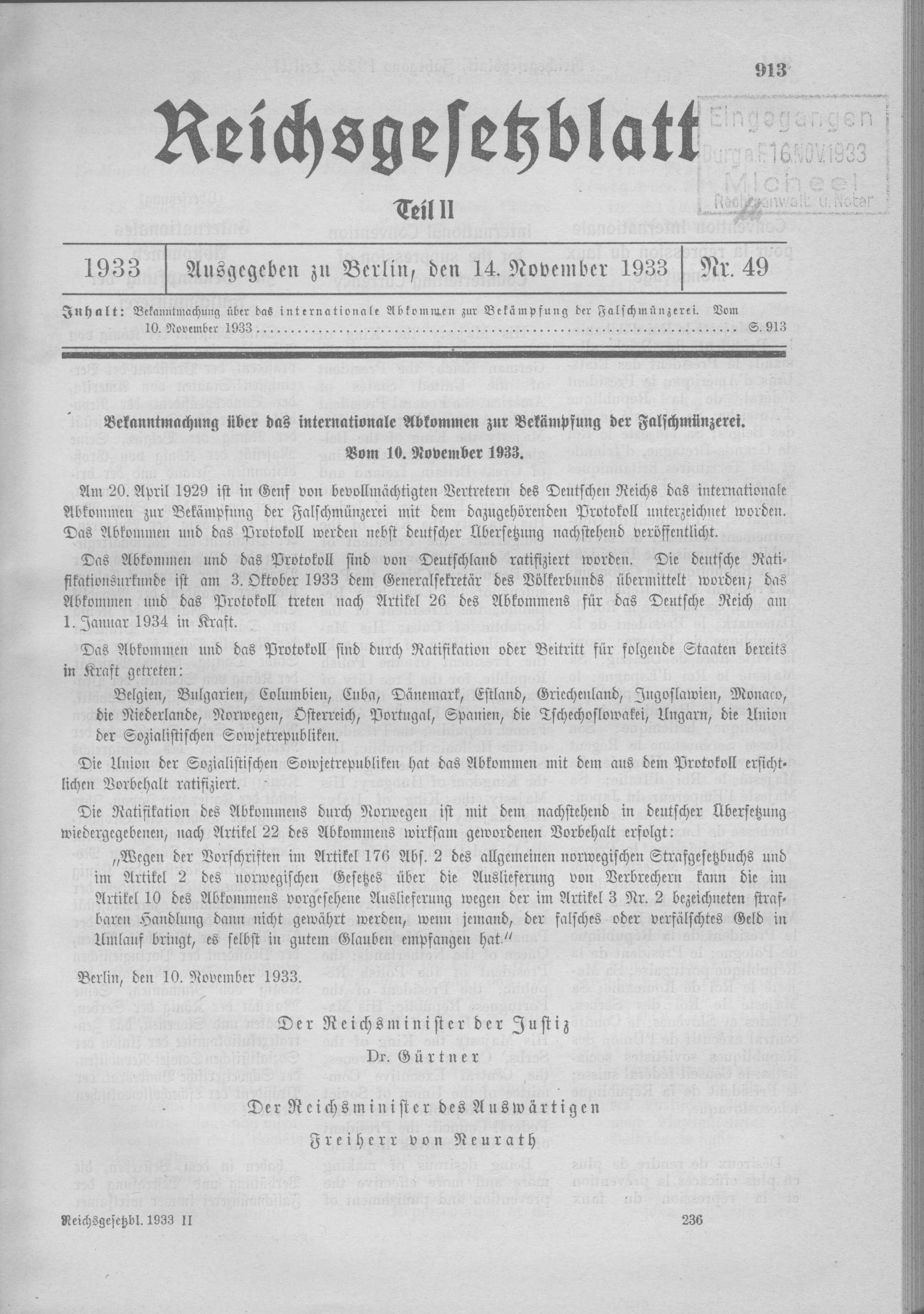 Scan from the Imperial Law Gazette of Germany, 1933, part 2